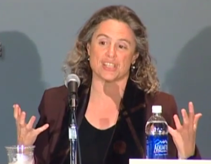 Ruth Milkman at the Loyola Marymount University Thomas and Dorothy Leavey Center for the Study of Los Angeles on 23 February, 2006, giving a lecture entitled "Unions and Our City" as a part of the LMU Urban Issues Lecture Series.